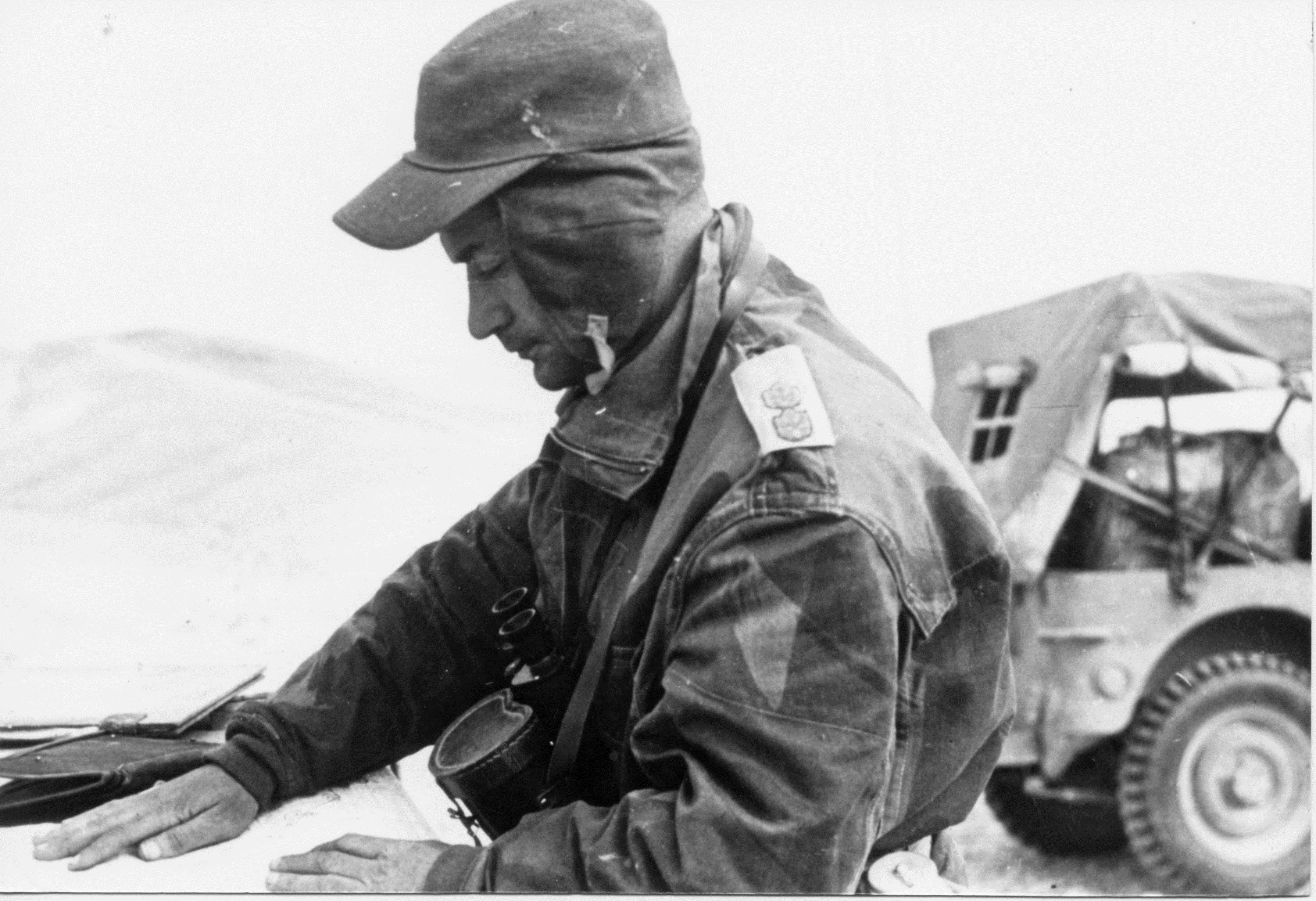 The Palmach, Israel Defense Forces